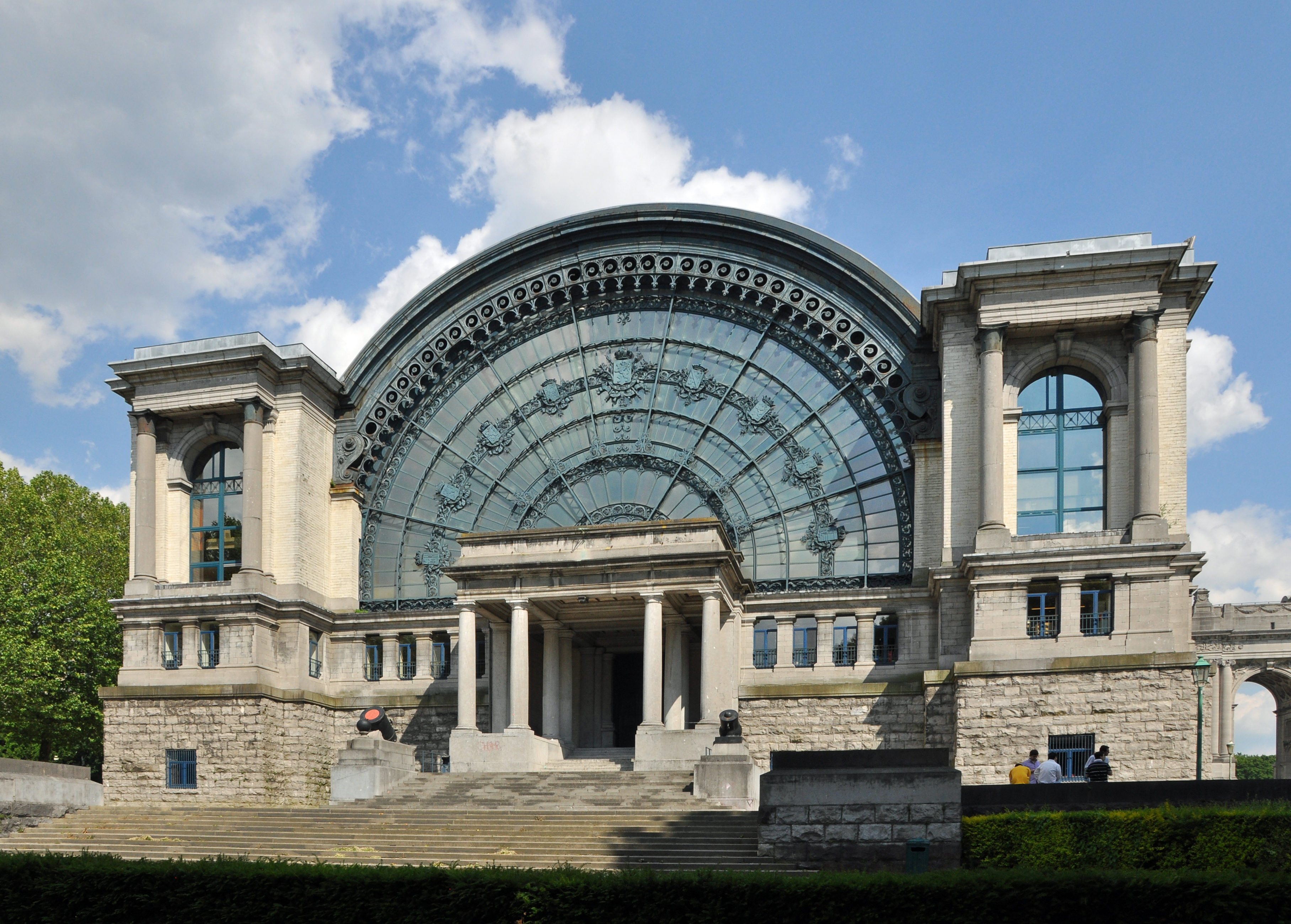 Brussels (Belgium): Royal Museum of the Armed Forces and of Military History